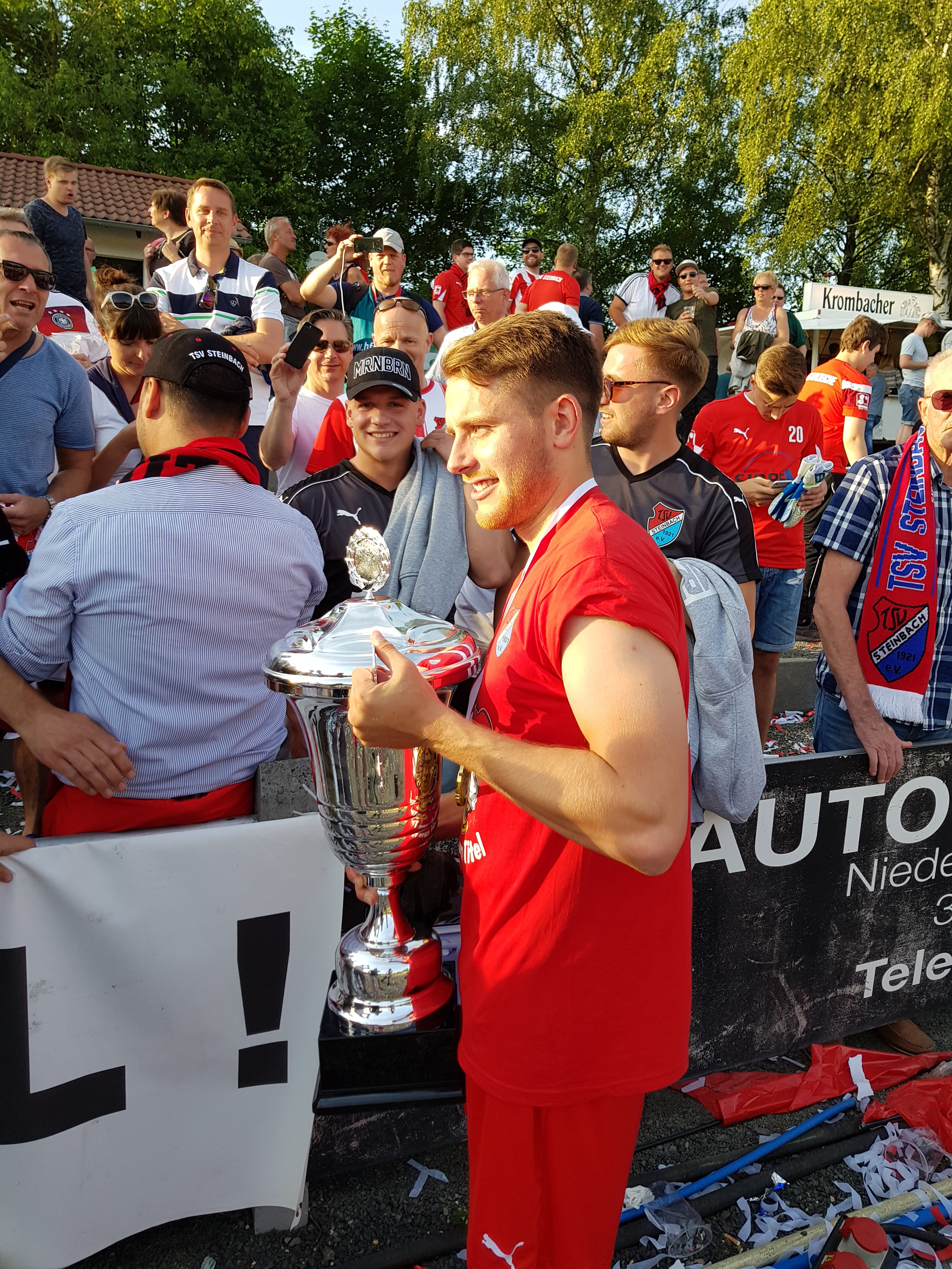 TSV Steinbach: Hessenpokalsieger 2018